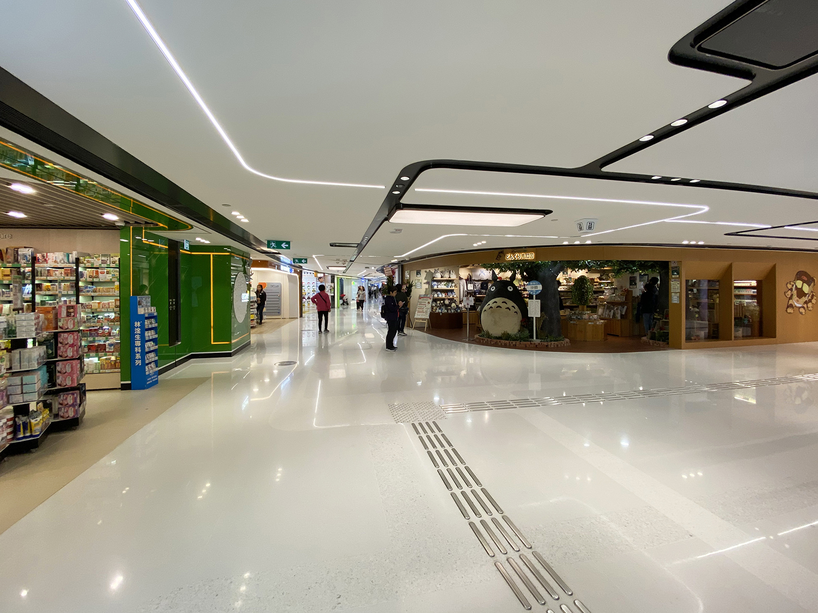 New Town Plaza Phase 3 L2 After renovation